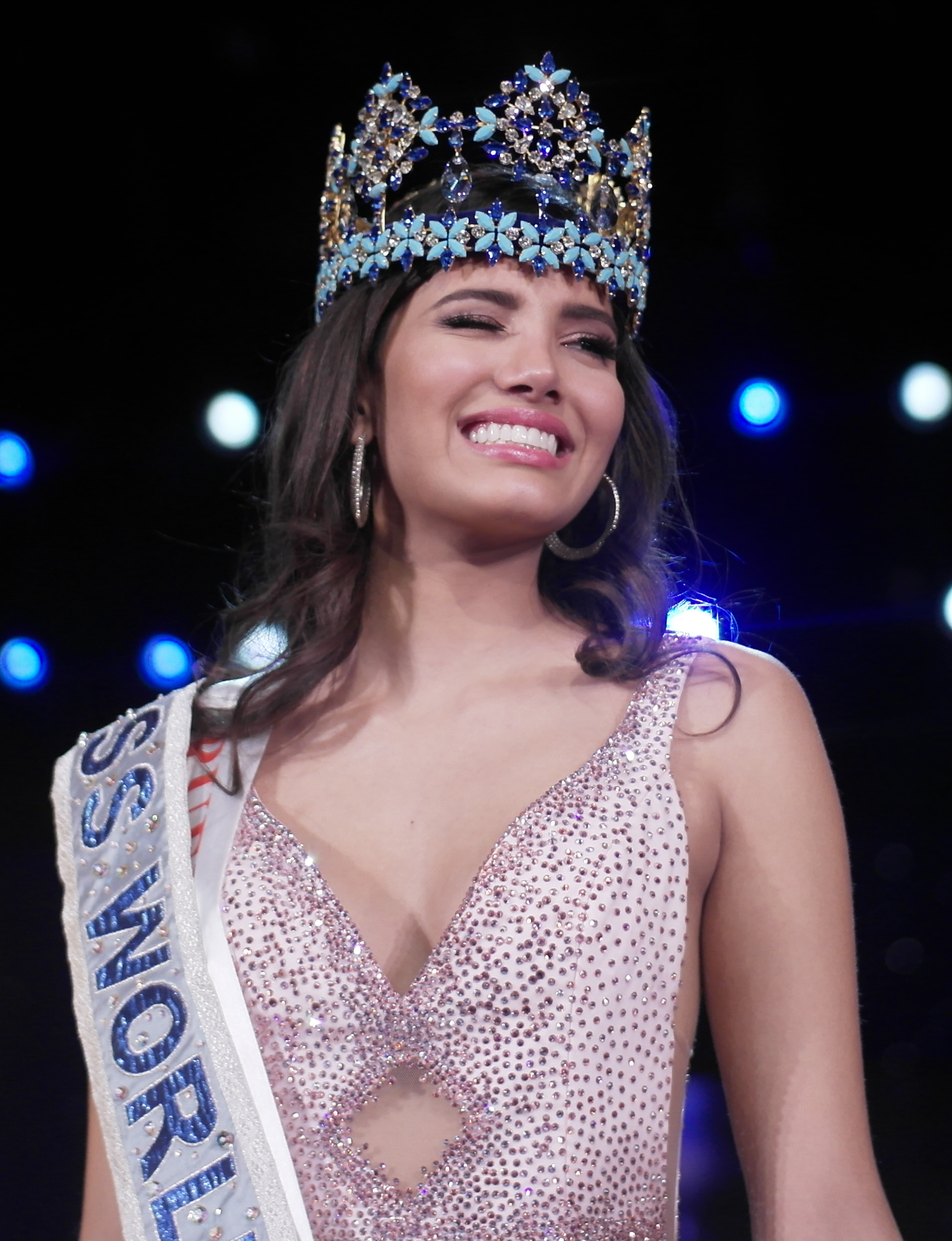 Stephanie Del Valle, Miss World 2016 at MGM Grand, Washington DC